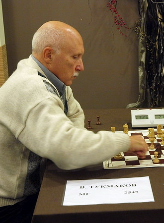 GM Vladimir Tukmakov. Photo by Lena Ivanova. Odessa, 3 December 2009.